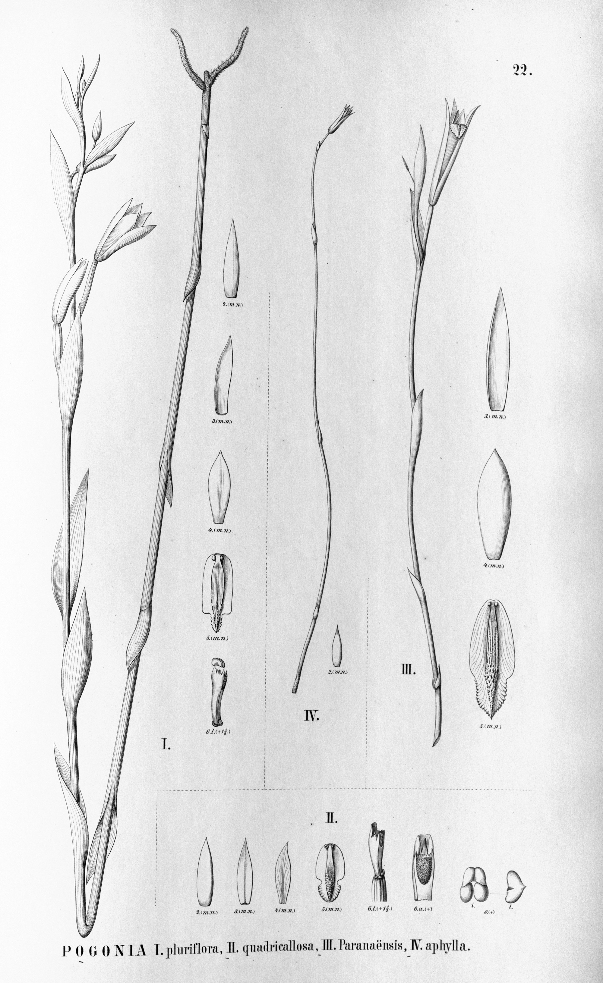 Illustration of: I. Cleistes pluriflora (as syn. Pogonia pluriflora) II. Cleistes quadricallosa (as syn. Pogonia quadricallosa) III. Cleistes paranaensis (as syn. Pogonia paranaensis) IV. Cleistes aphylla (as syn. Pogonia aphylla)